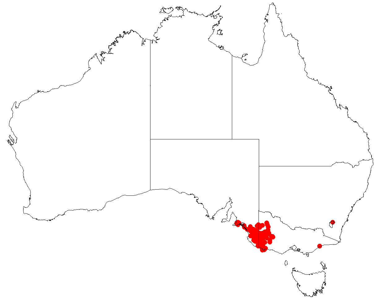 Allocasuarina mackliniana Occurrence data downloaded from Australasian Virtual Herbarium on 4 July 2018